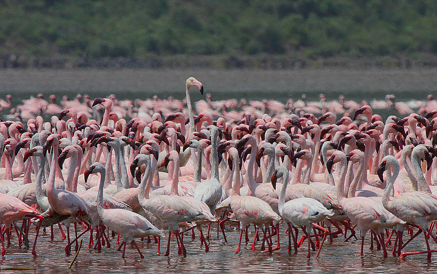 A single Greater Flamingo stands out amongst a sea of Lesser Flamingoes on the edge of Lake Bogoria, Kenya.